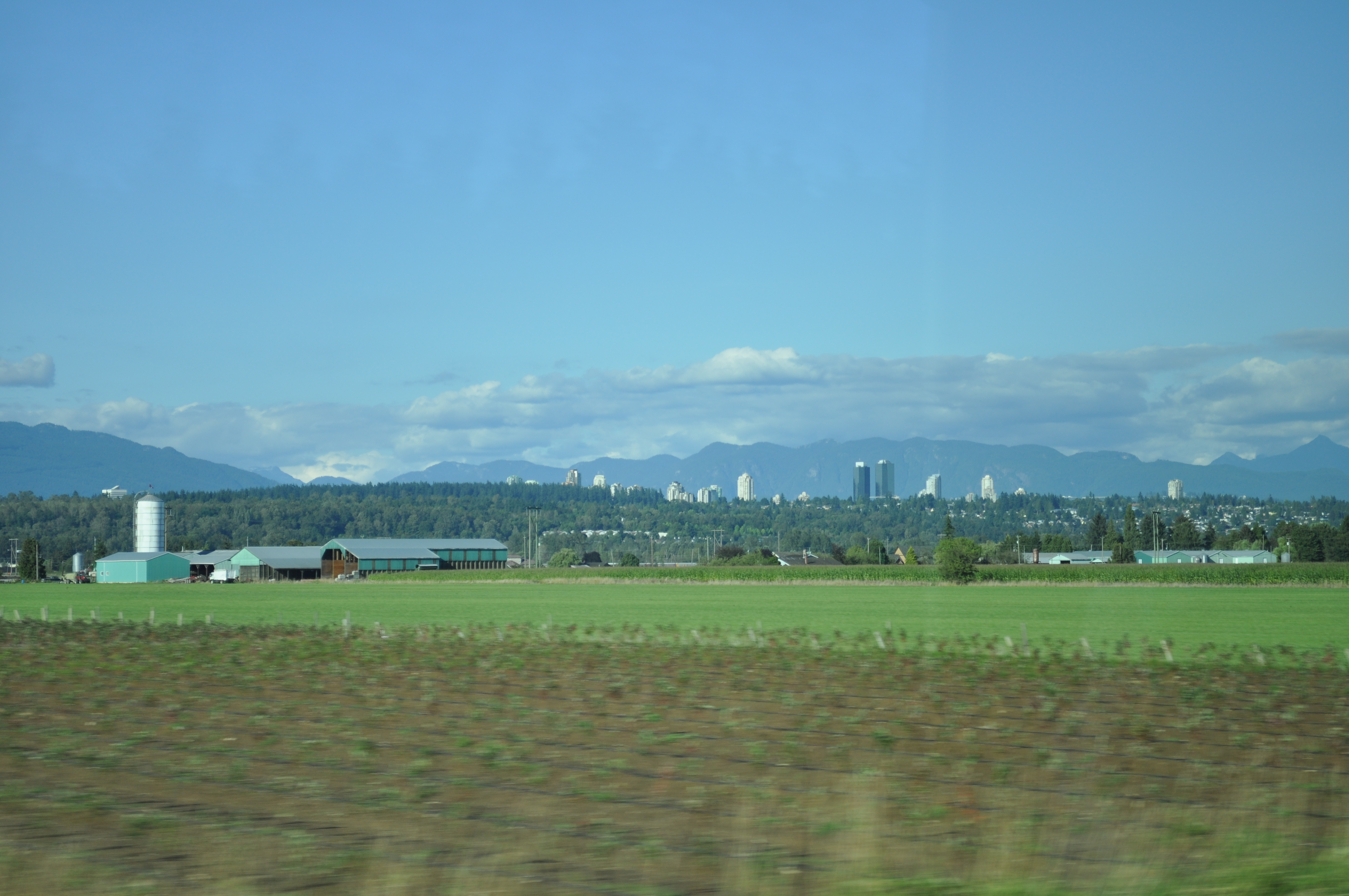 Looking north toward Burnaby, British Columbia.